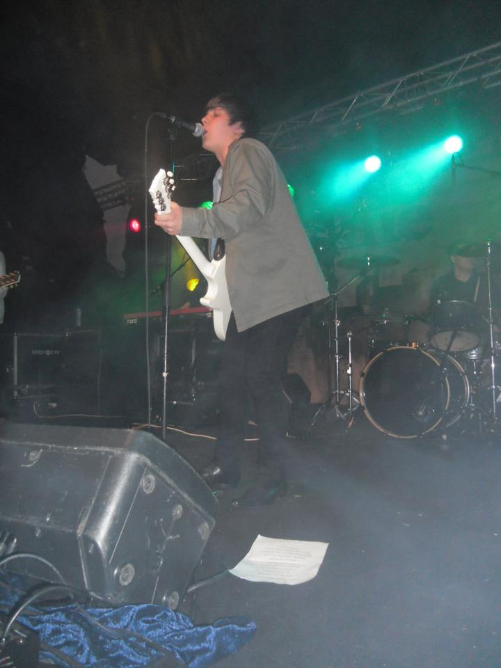 Use Me performing in Egersund 9.9. 2011.